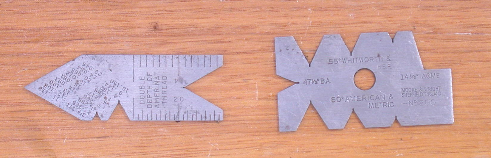 Photograph taken by Glenn McKechnie on the 24th March 2005.